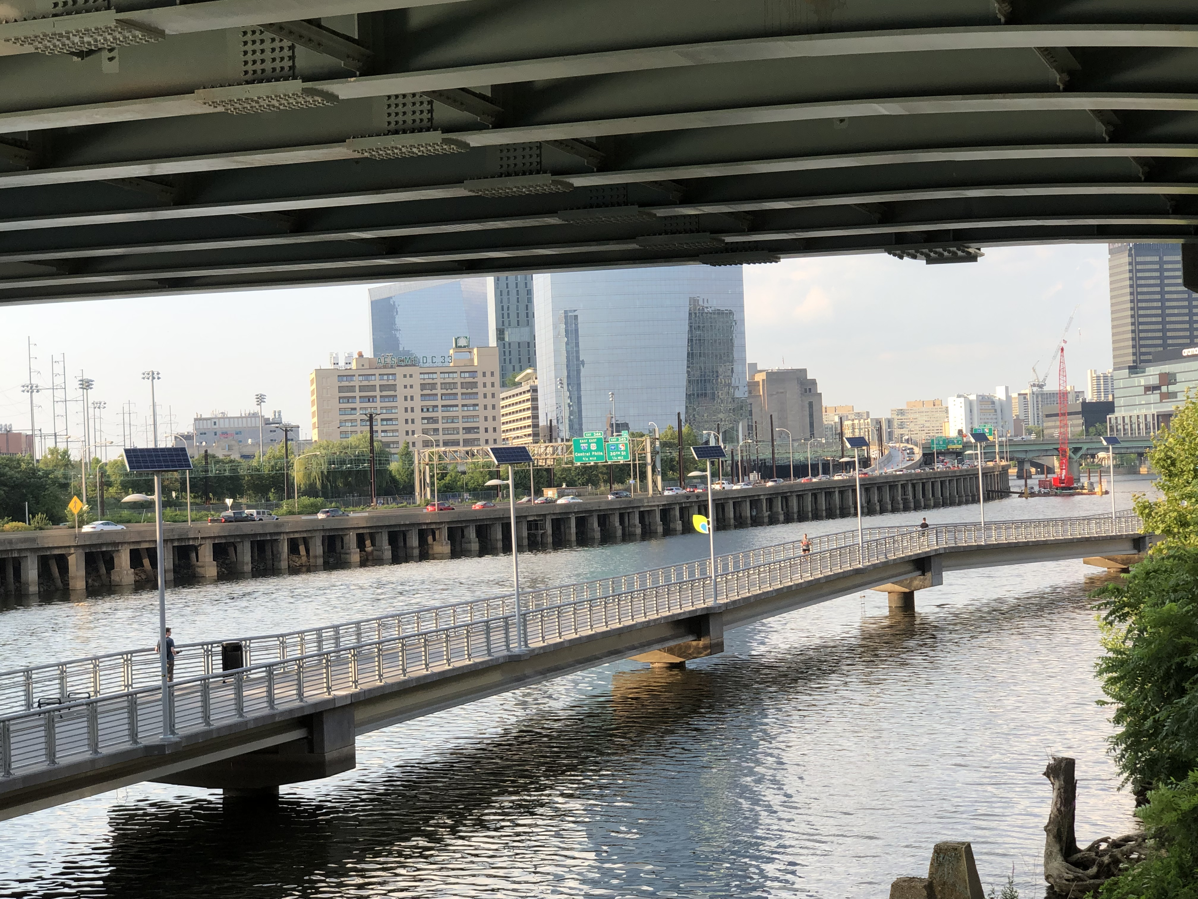 Schuylkill Expressway 76